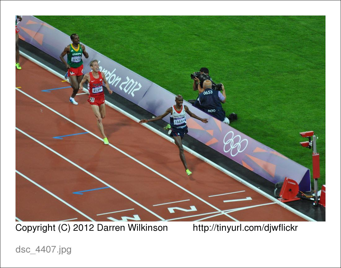 Mo crossing the finish line